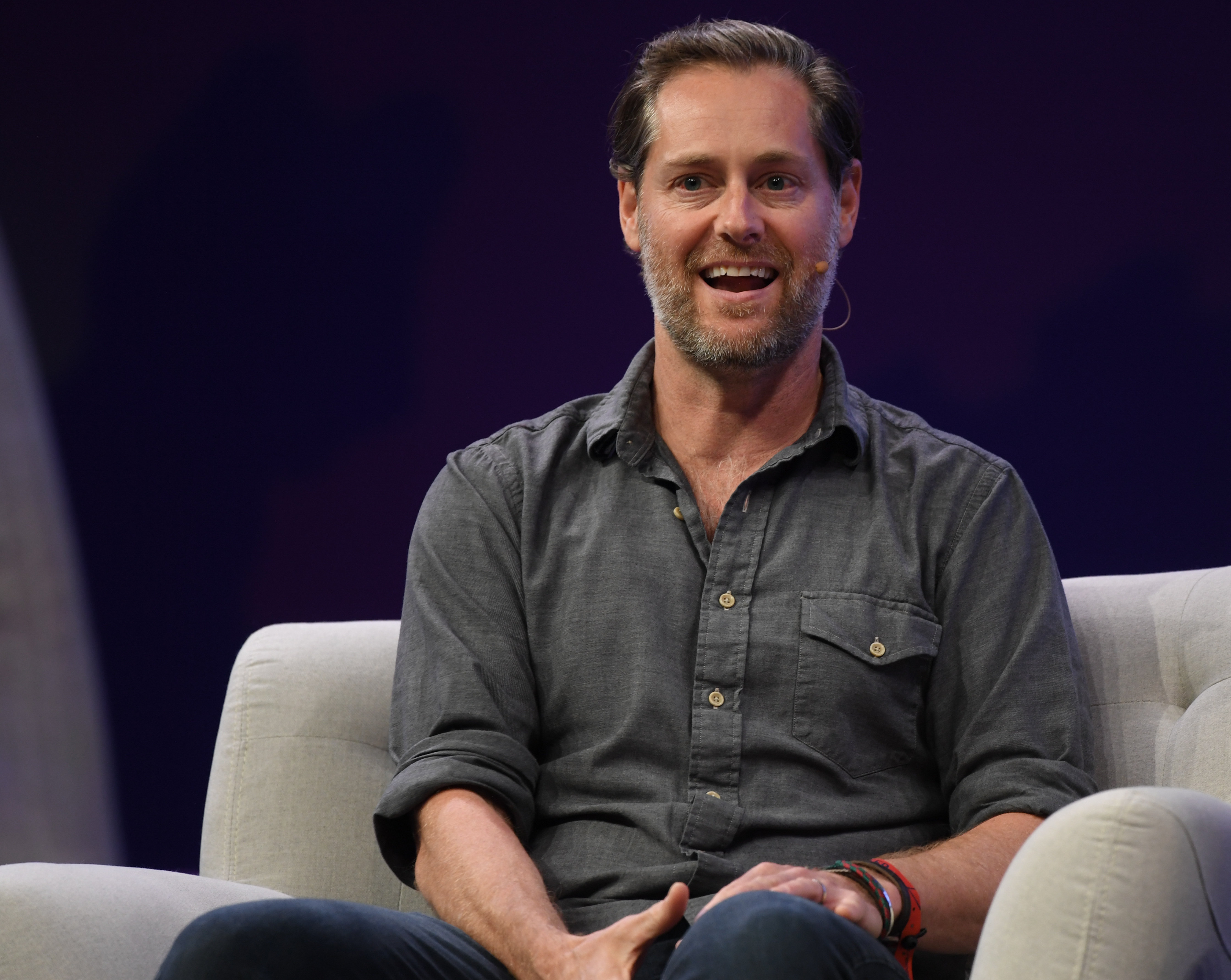 23 May 2019; Ryan Holmes, Founder, Hootsuite, on Center Stage following day three of Collision 2019 at Enercare Center in Toronto, Canada. Photo by Stephen McCarthy/Collision via Sportsfile